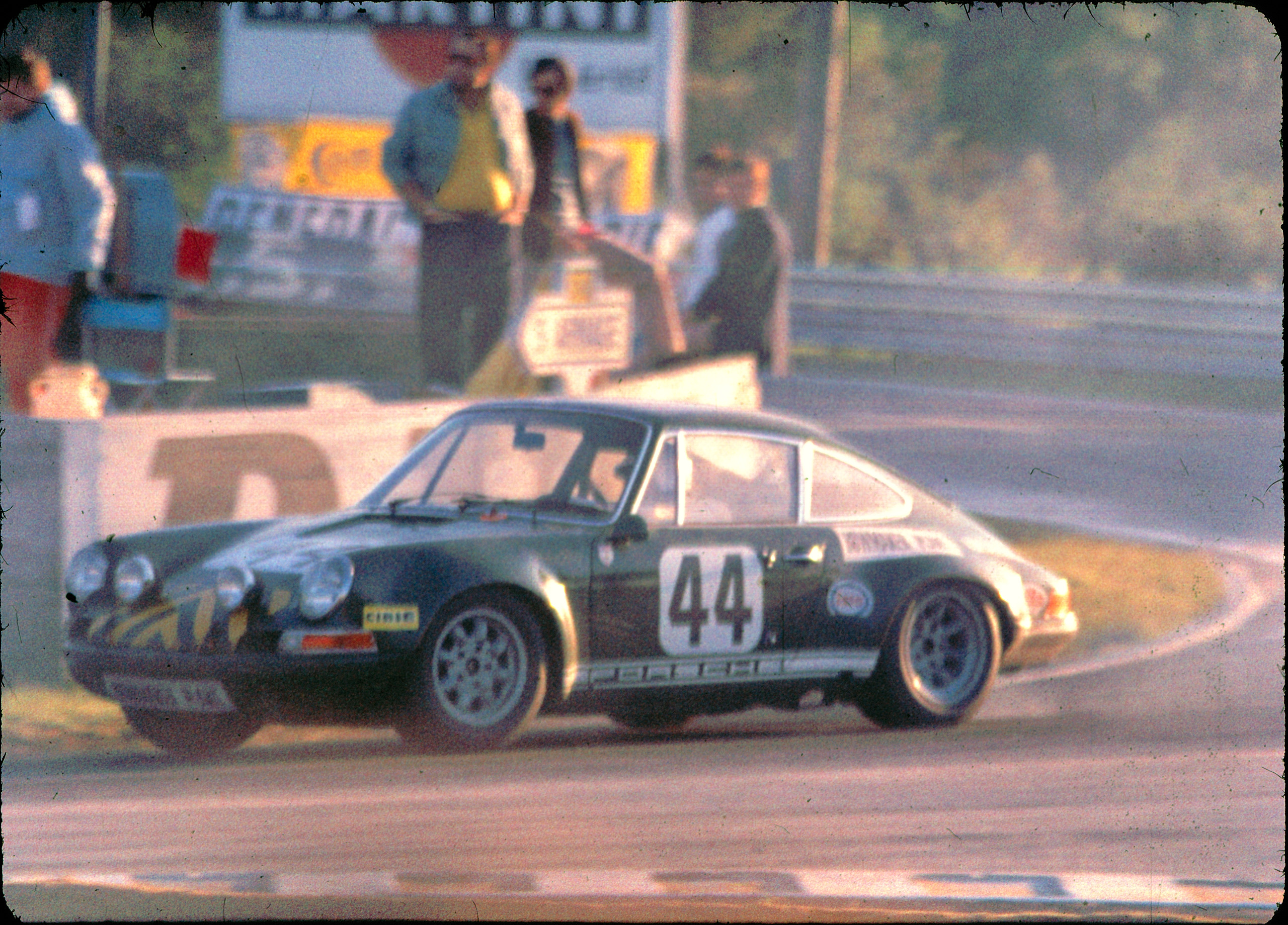 Porsche 911 S N°44 The Paul Watson Racing Organisation Technique : Catégorie : GTS Moteur : F6 Porsche 2245 cm3 Pilotes : Paul Vestey Richard Bond